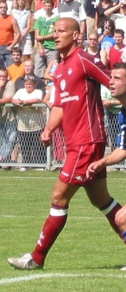 Carsten Jancker at Kaiserslautern